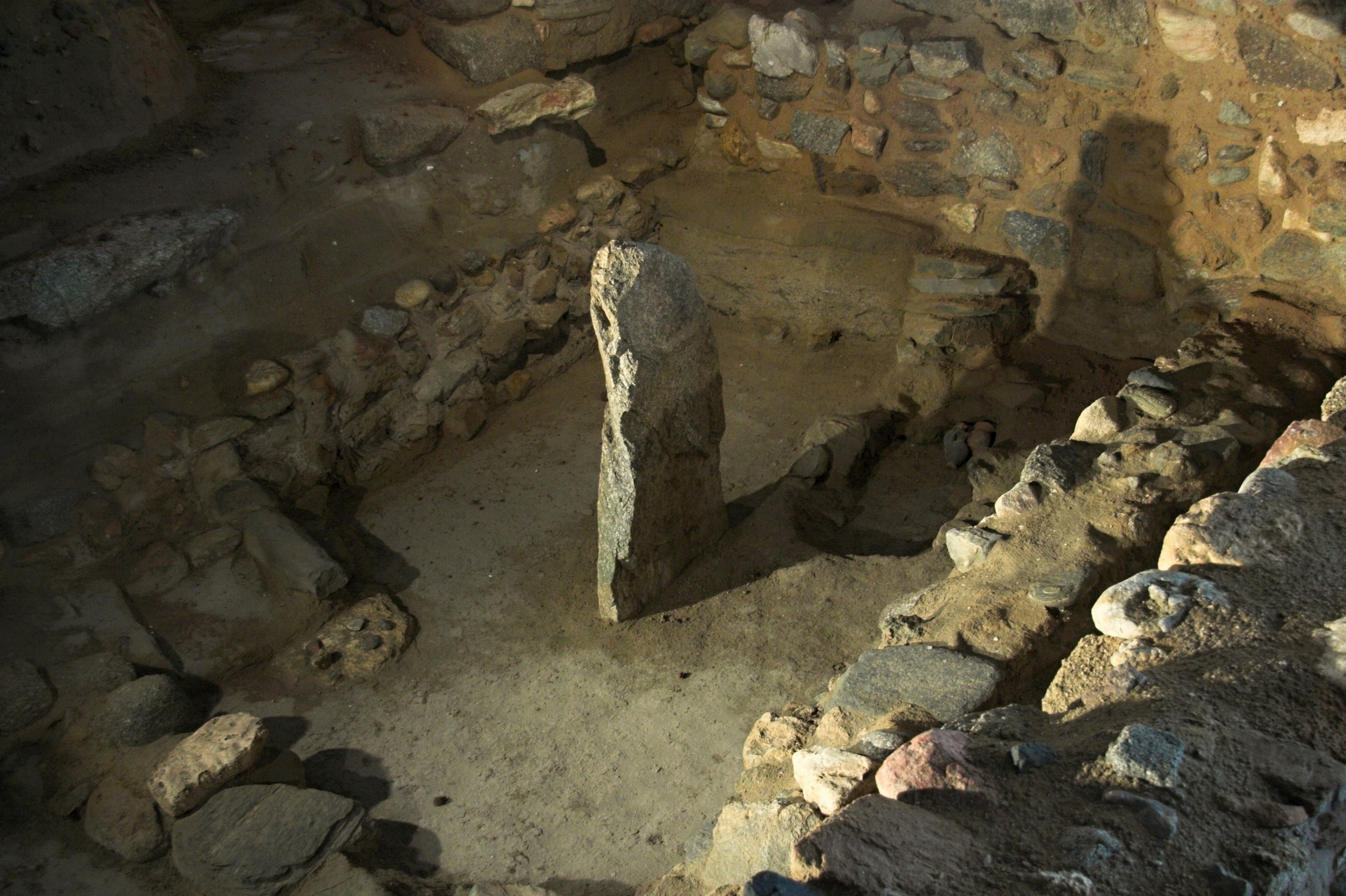 A small menhir or phallic stone at the tomb of 9 or 8th century BC (the Early geometrical style). Grotta, Naxos.